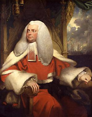 Portrait of Sir Francis Buller, 1st Baronet